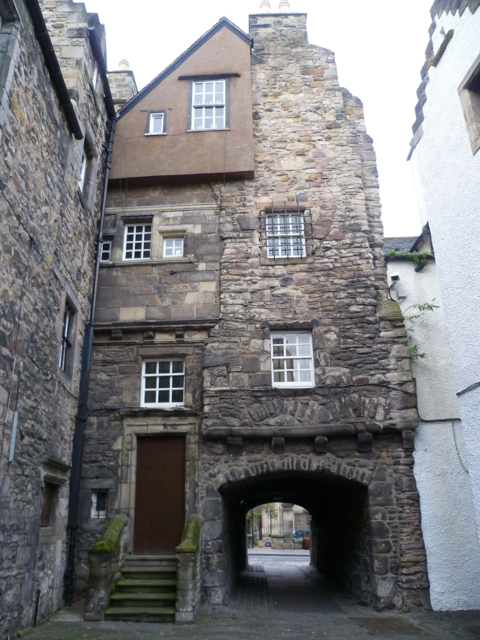 Bakehouse Close (also known as Hammermen's Close) off the Canongate